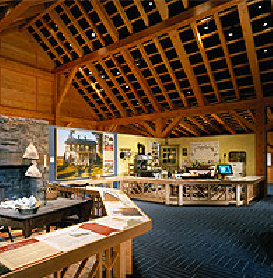 Museum of the Shenandoah Valley History Gallery